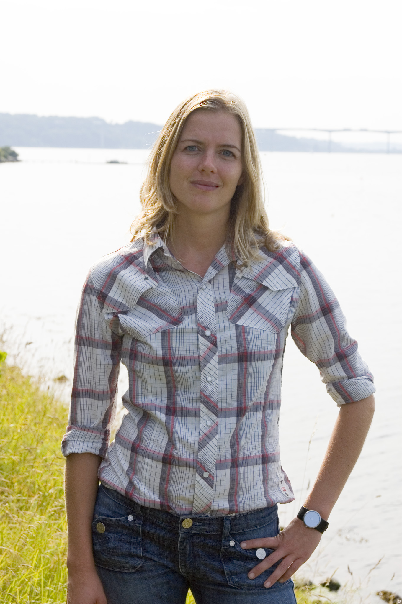 Ellen Trane Nørby, Danish politician from Venstre.